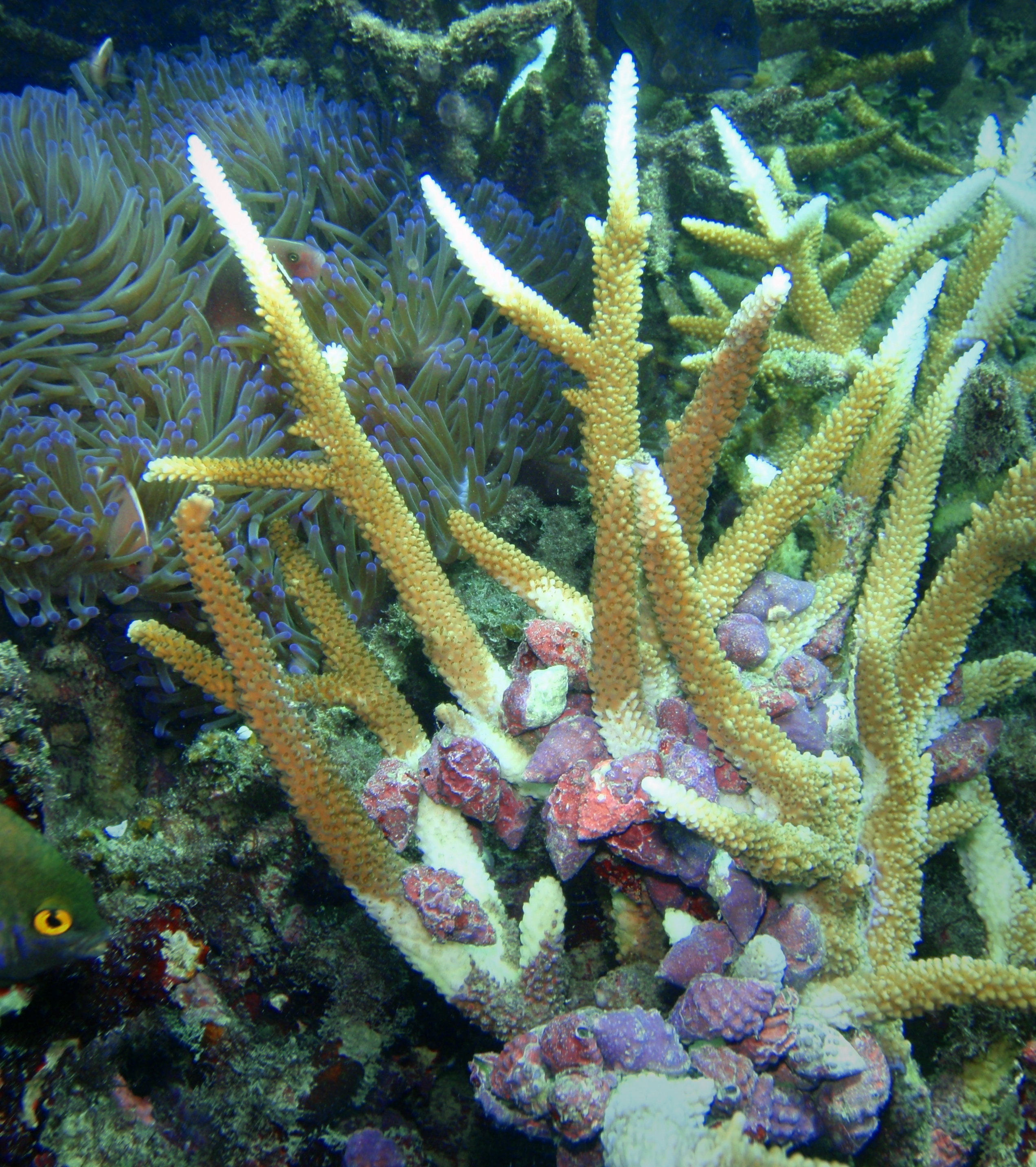 Feeding aggregation of Drupella rugosa snails on Acropora branching corals on the island of Koh Tao, Thailand.